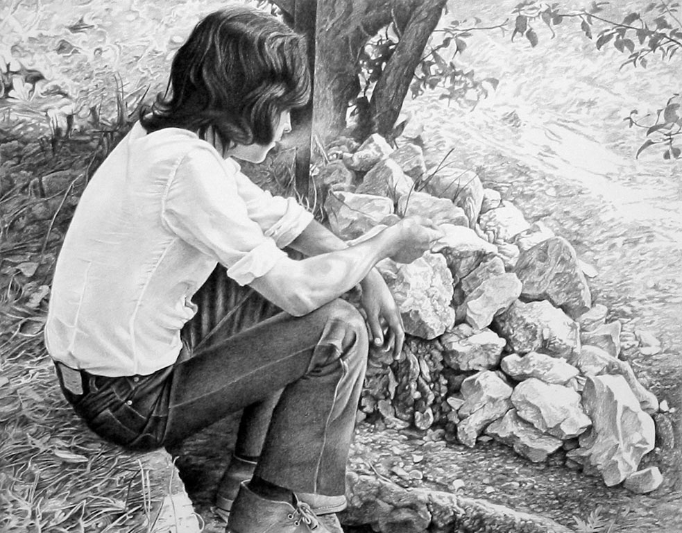 Self Portrait, drawing by Bernard Dumaine, 1983 licensed under: Free Art License